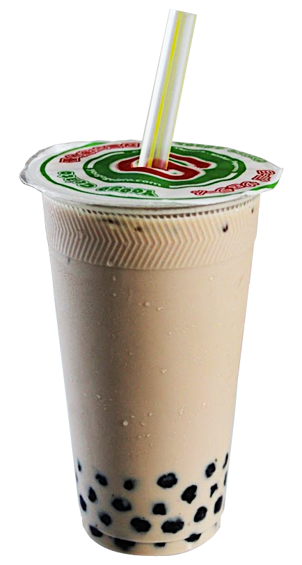 Bubble tea from a tea house in San Francisco